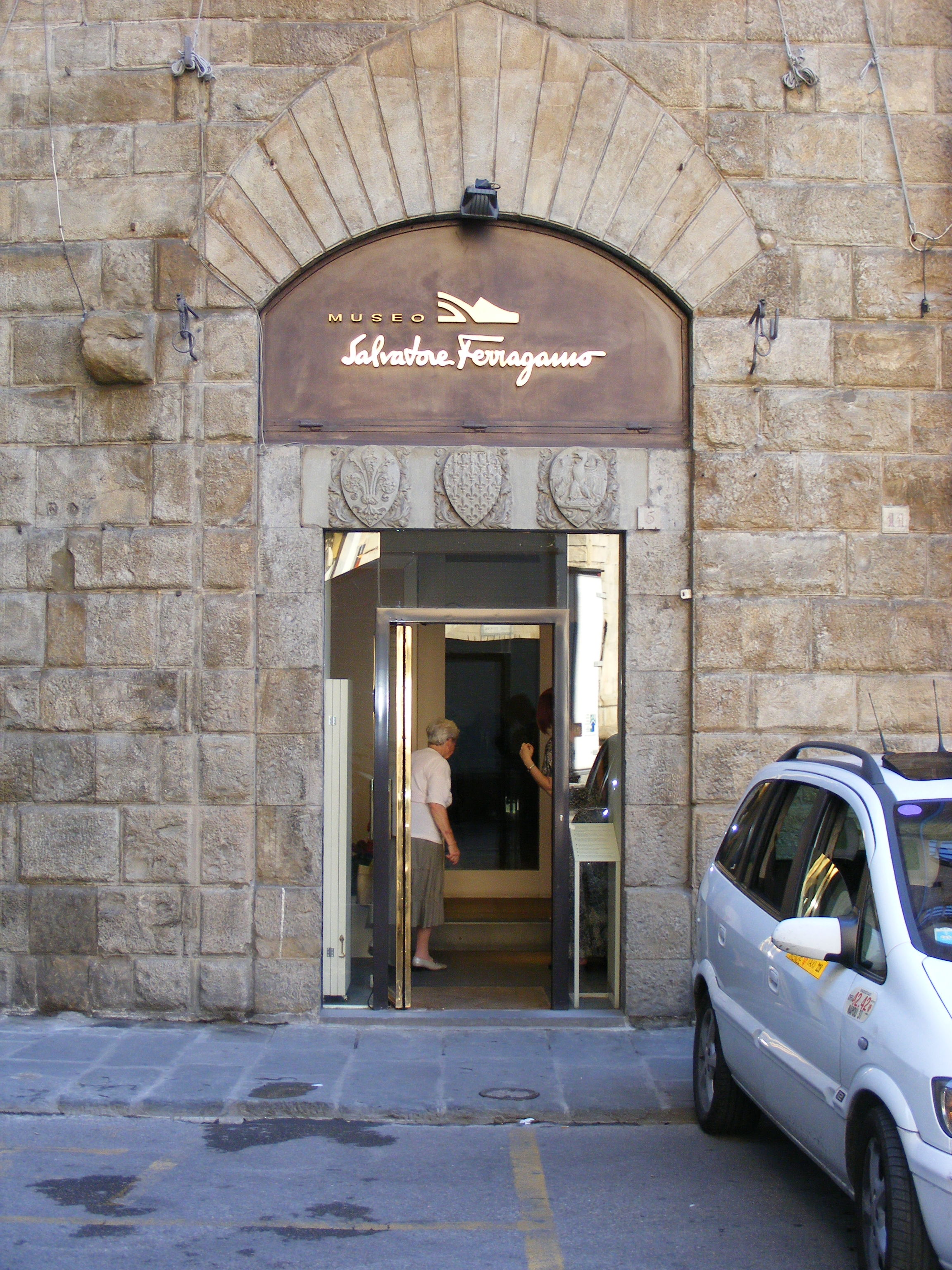 Museo Salvatore Ferragamo, Entrance nt of Palazzo Spini Feroni, Via Tornabuoni n. 2 (the museum is located in the basement)